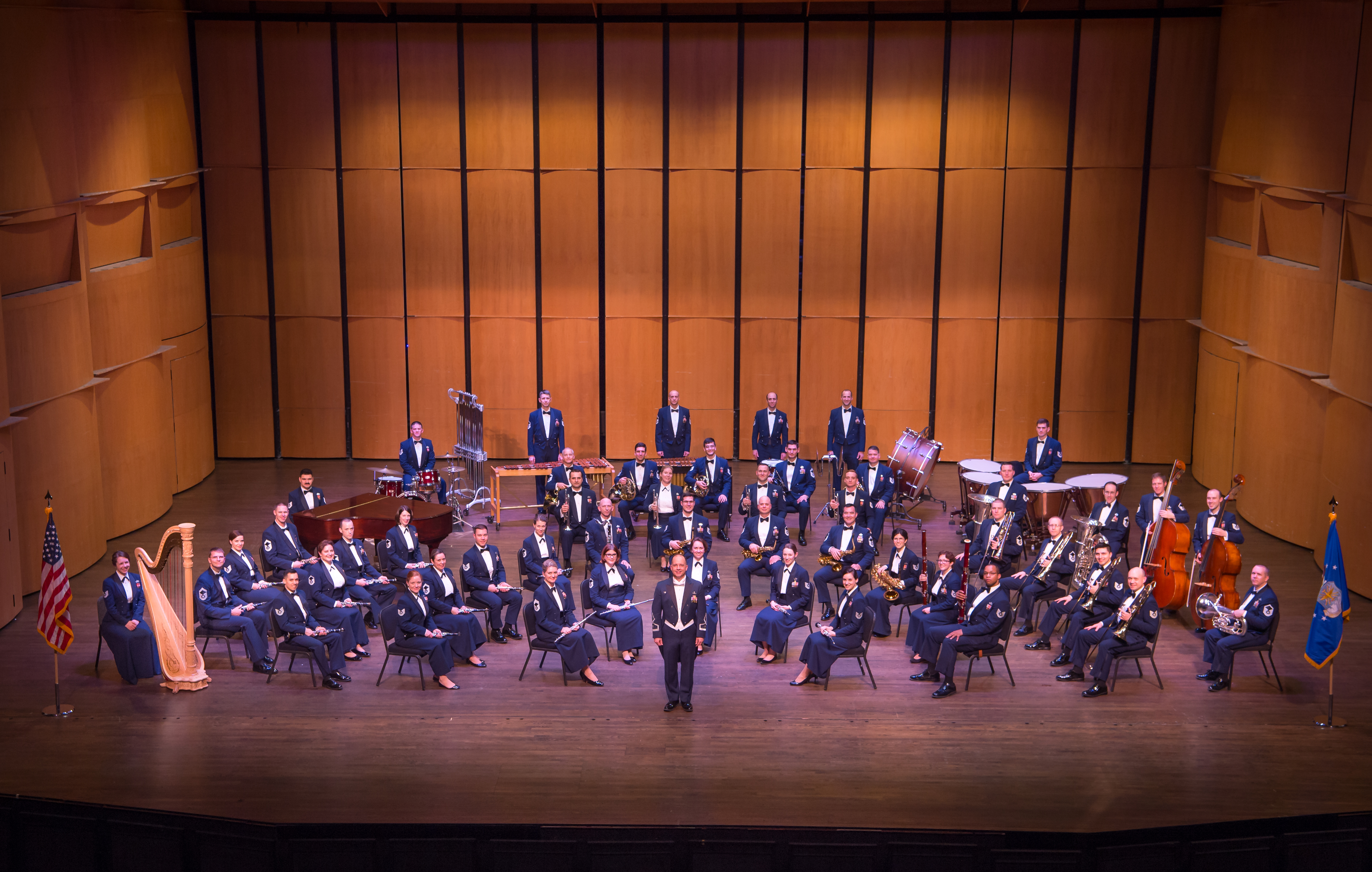 Official photo of The U.S. Air Force Concert Band. Stationed at Joint Base Anacostia-Bolling in Washington, D.C., it is the official wind ensemble of the United States Air Force.